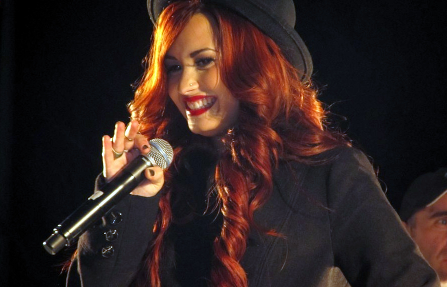 Demi Lovato in December 2011.